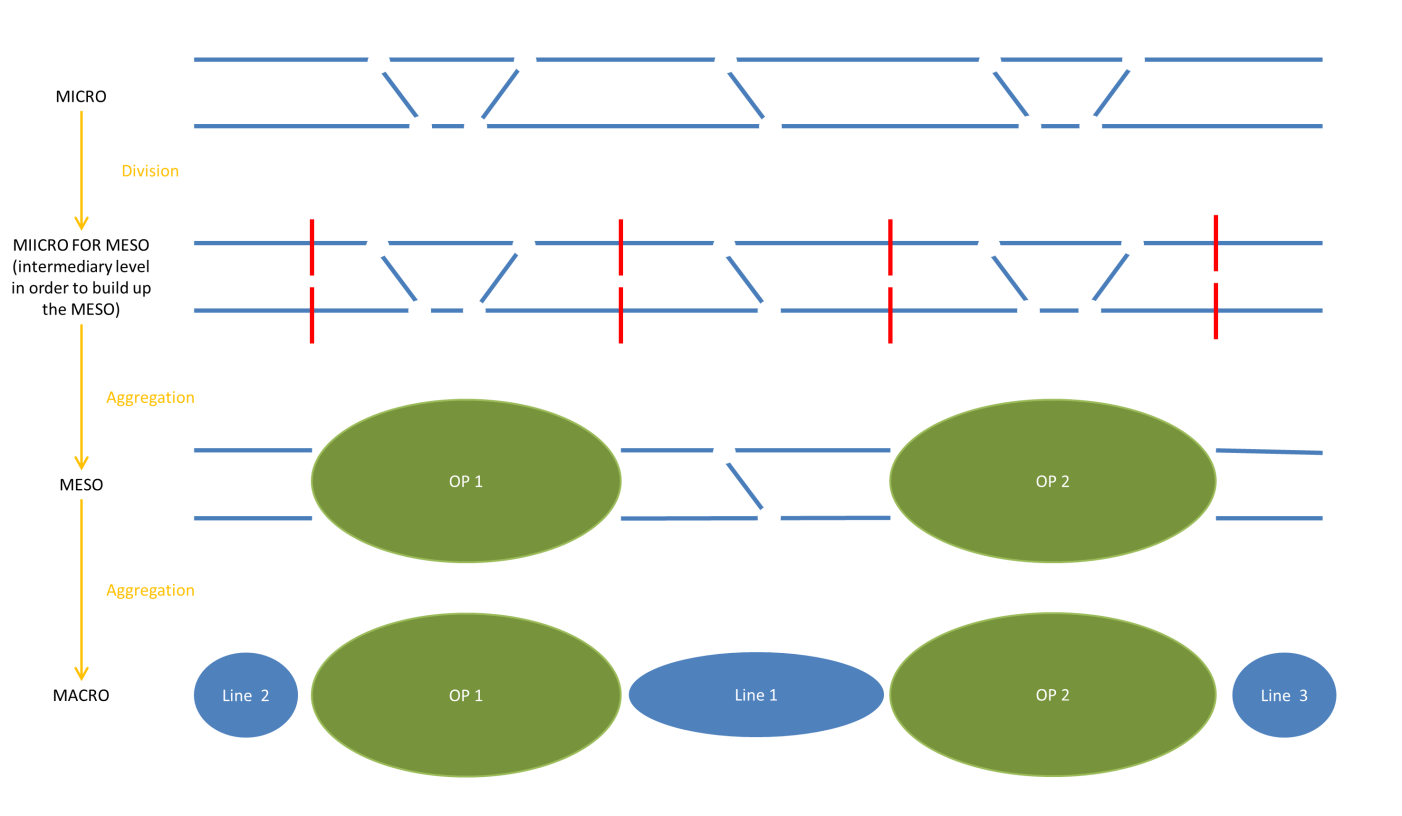 A piece of railway structure, depicted in different levels of aggregation within the RailTopoModel